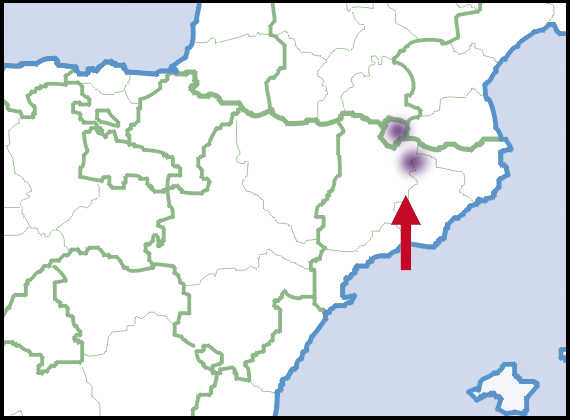 Pyrenaearia parva Ortiz de Zárate, 1956. Distribution in Europe, scientific state of knowledge of 2012. Source description in English. Light colour indicated rare occurrences or regions where the species could eventually be expected to occur. Dark colour indicated relatively reliable occurrences, as well as regions where the species was expected to occur, and where the species was not known to be extremely rare. Dark colour indications were not necessarily based on published records. Species summary in AnimalBase